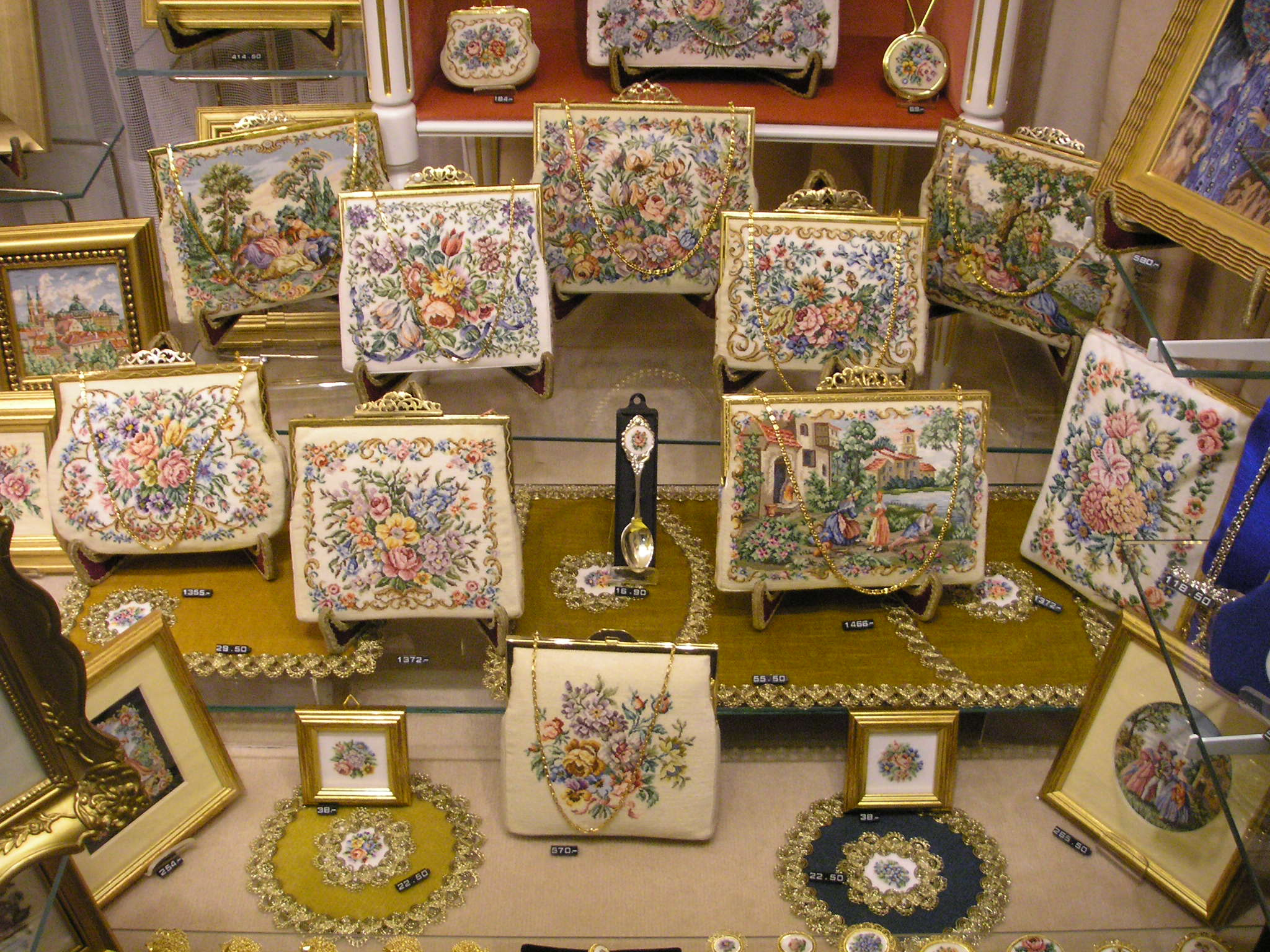 petit point stitchwork at a shop in Vienna's I. district.